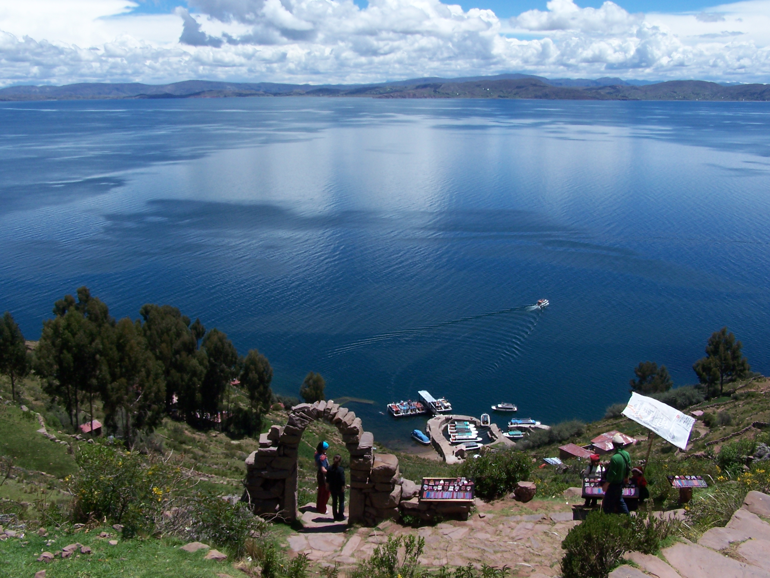 Titicaca lake´s view from Taquile Island, Perú